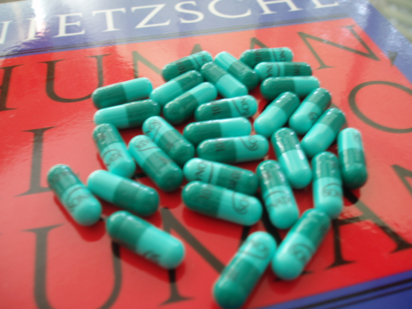 A one month's supply of Sonata 10mg capsules.